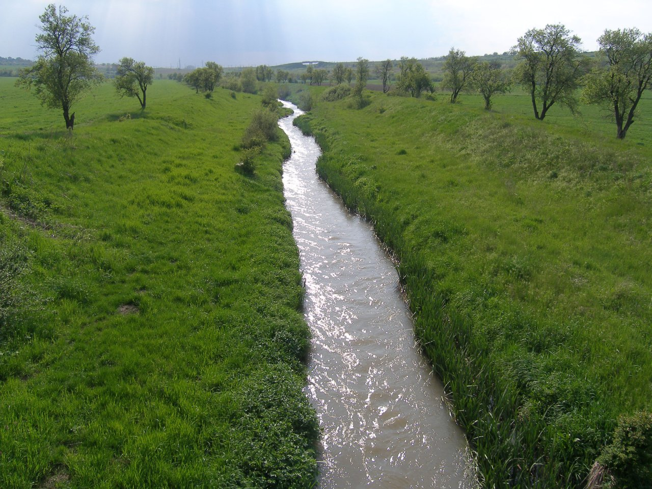 Provadiya River in Kaspichan